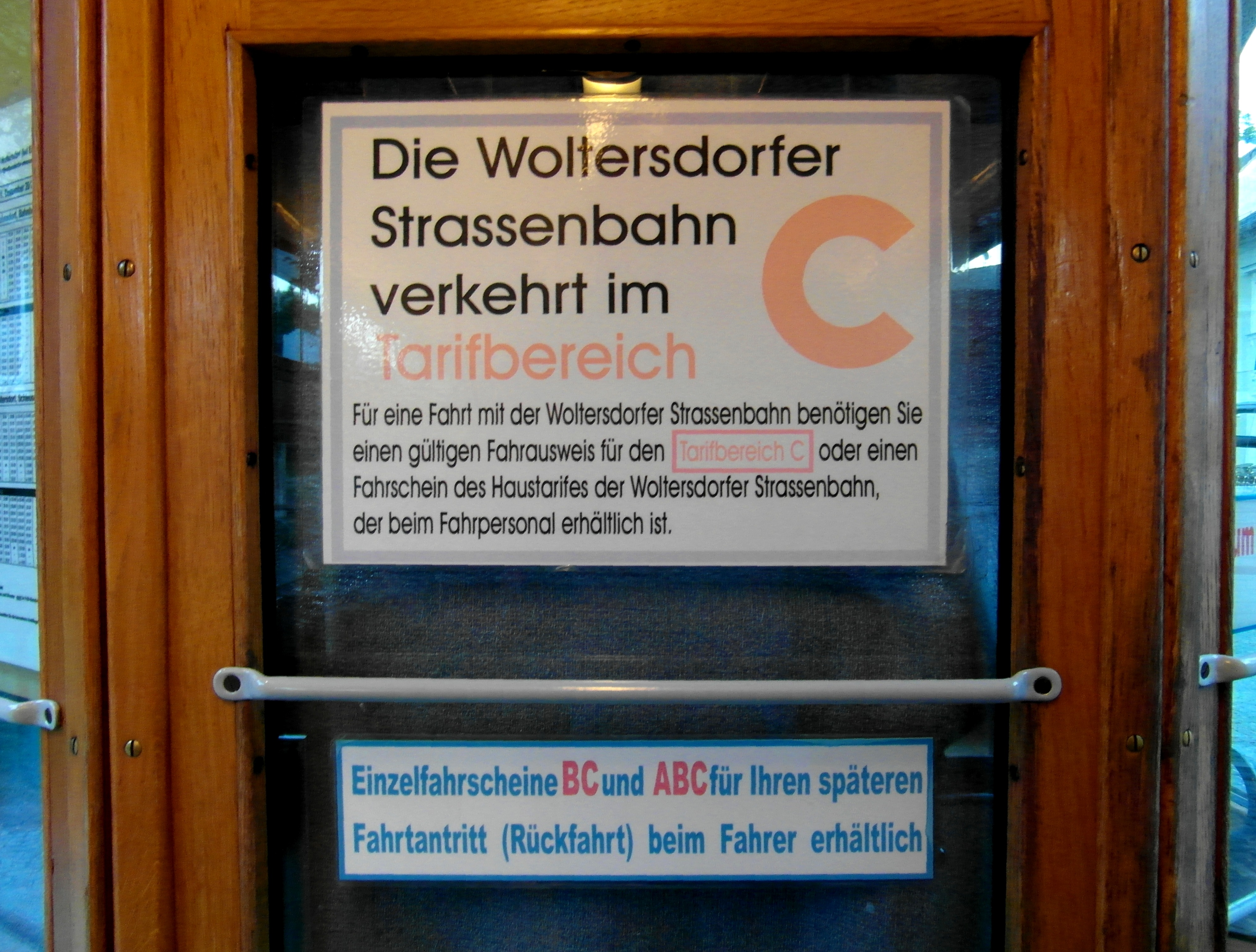 Details of a tram of Woltersdorf's tramway, Woltersdorf, Brandenburg